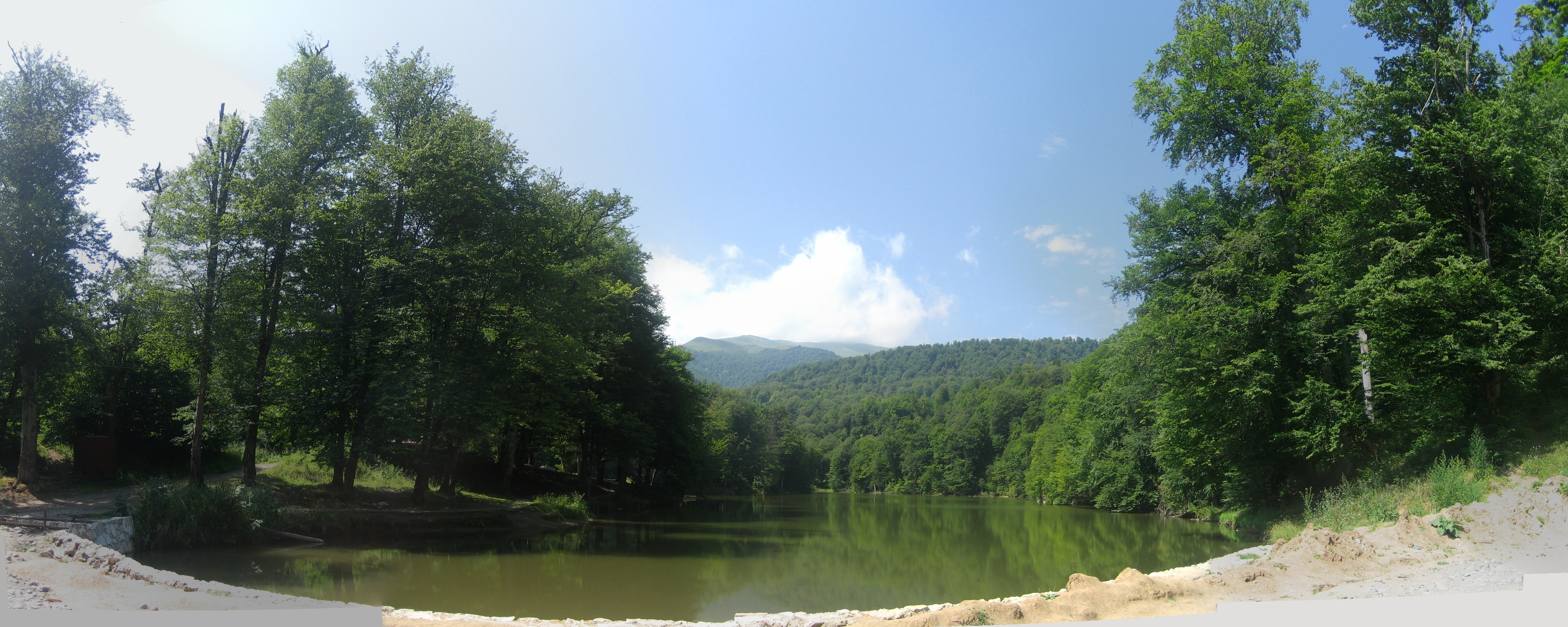 Parz Lich (Պարզ Լիճ, meaning "clear lake") in the mountains near Dilijan, Armenia. Panorama created with Hugin software.